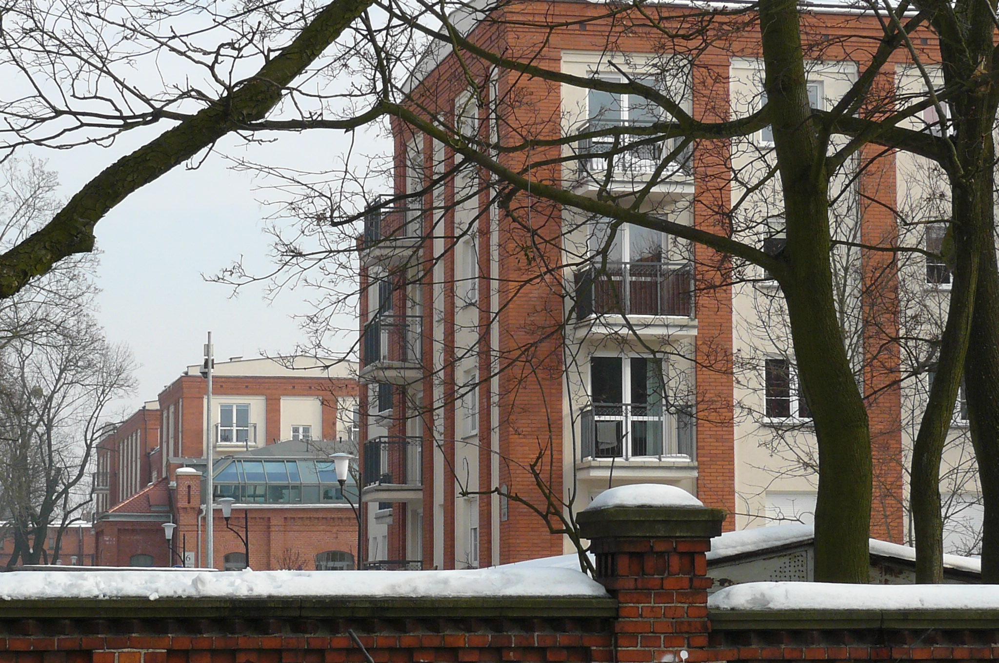 Ulanskie District in Poznan.